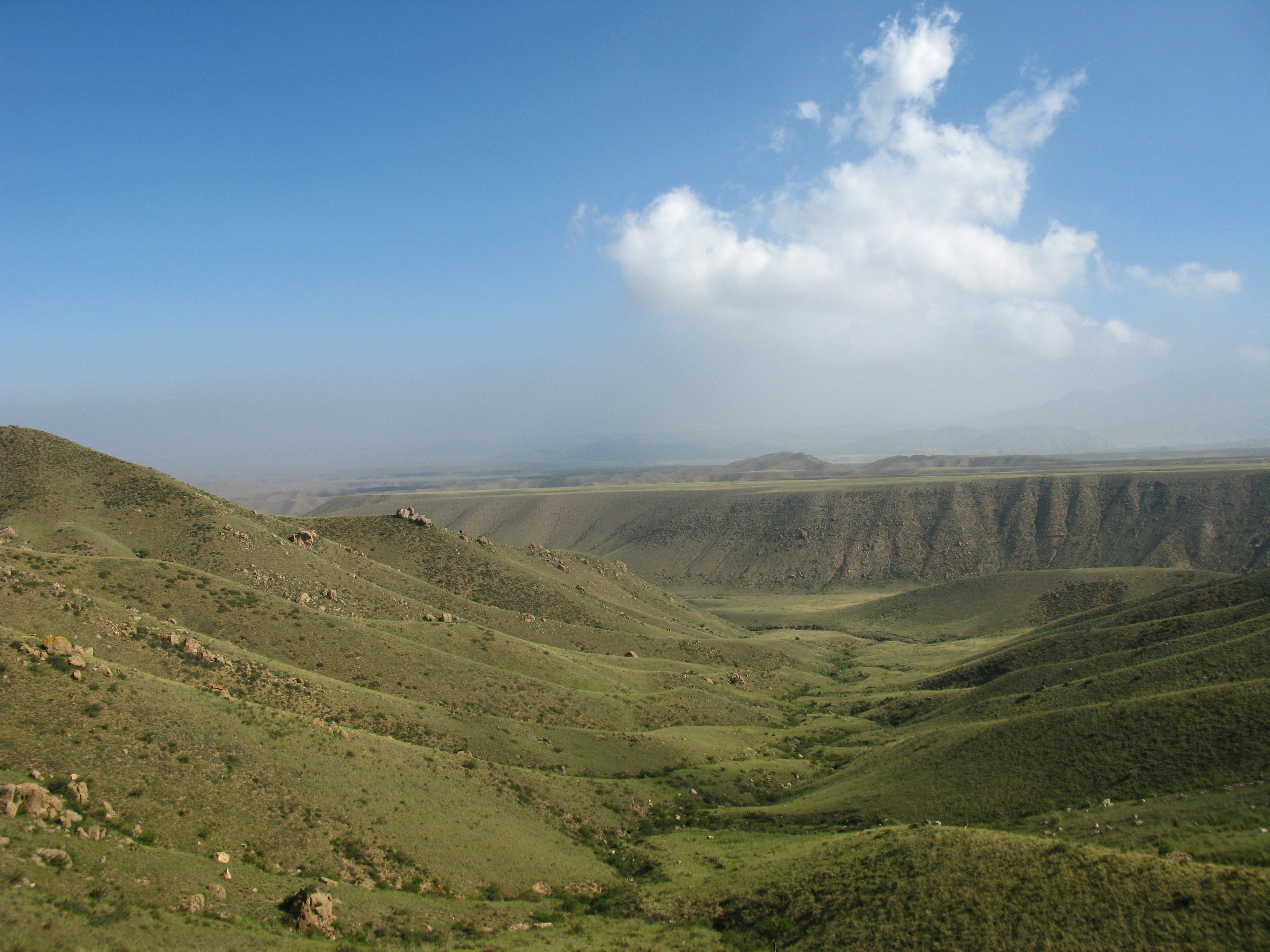 Landscape in Inner Mongolia